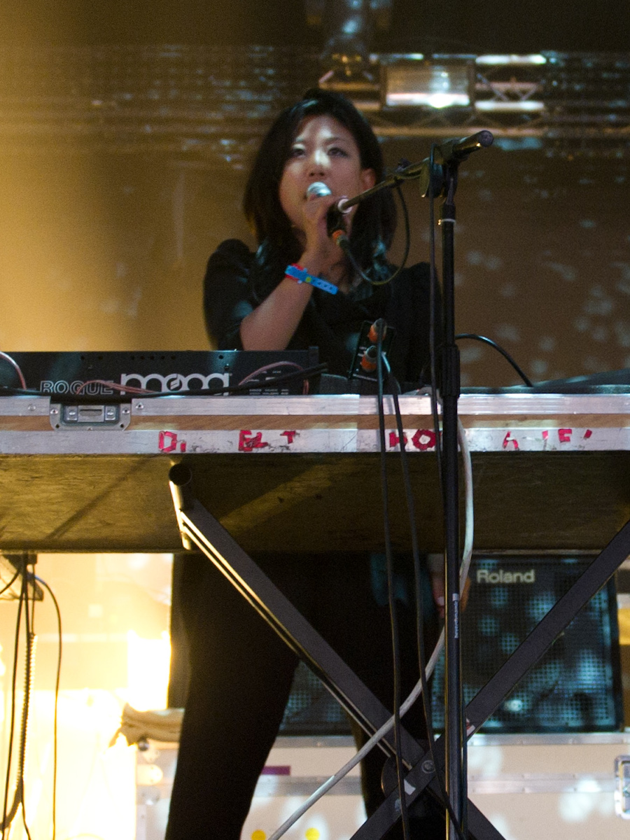 Nancy Whang performing with LCD Soundsystem at Roskilde Festival 2010.